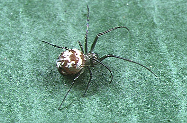 female Leucauge crucinota in web from Okinawa.